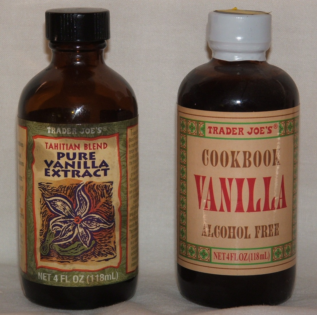 Two types of vanilla extract